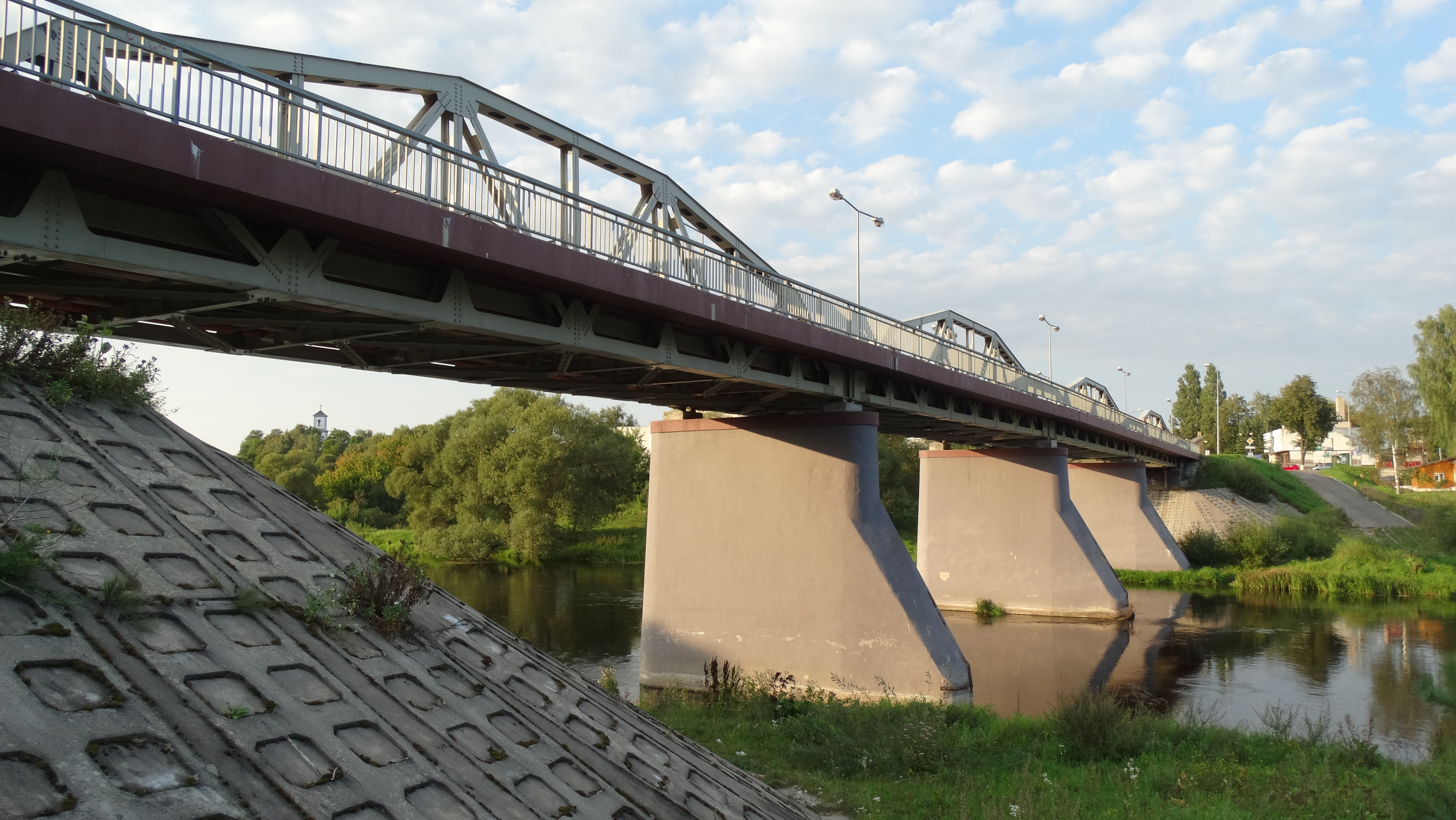 Bridge through Neris River, Nemenčinė, Vilnius District, Lithuania